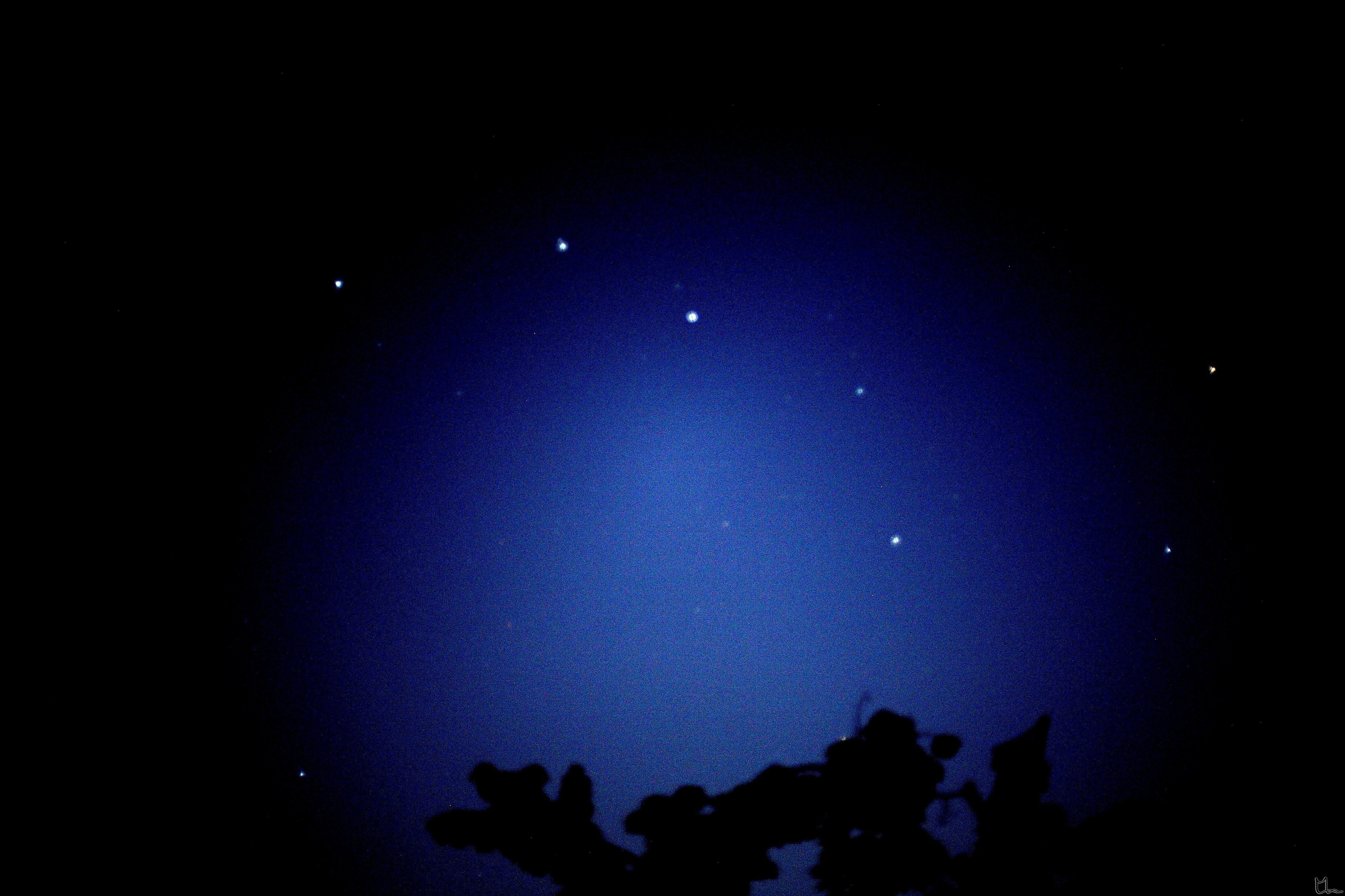 The stars of the constellation Ursa Major which make up the asterism known as Big Dipper, Plough et al. This unshopped image is a bit noisy but gives a very distinct view of the asterism.